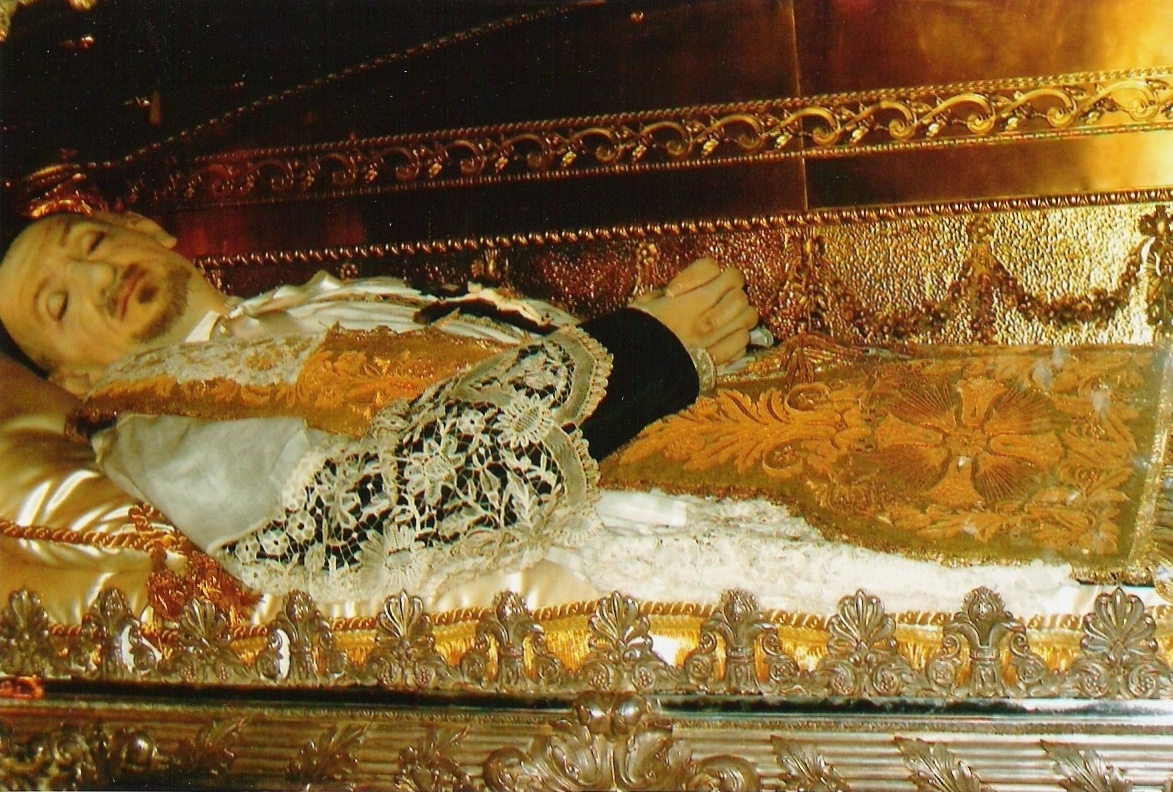 Incorupt body of St. Vincent de Paul, Paris